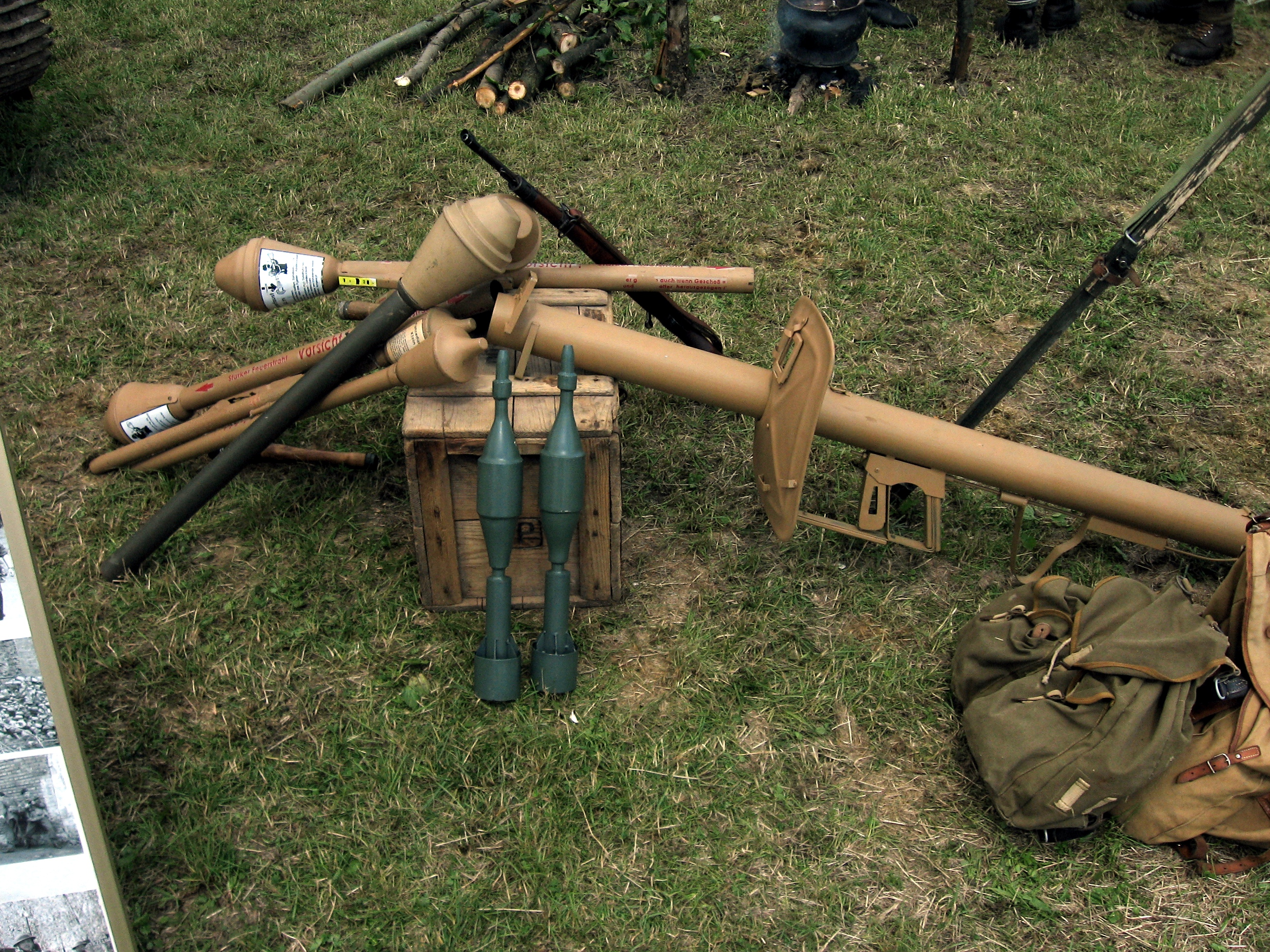 Panzerfaust and Panzerschreck antitank weapons during the VII Aircraft Picnic in Kraków.